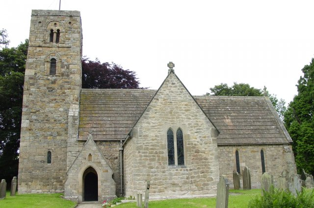 St Andrew's parish church, Bywell, Northumberland, seen from the south